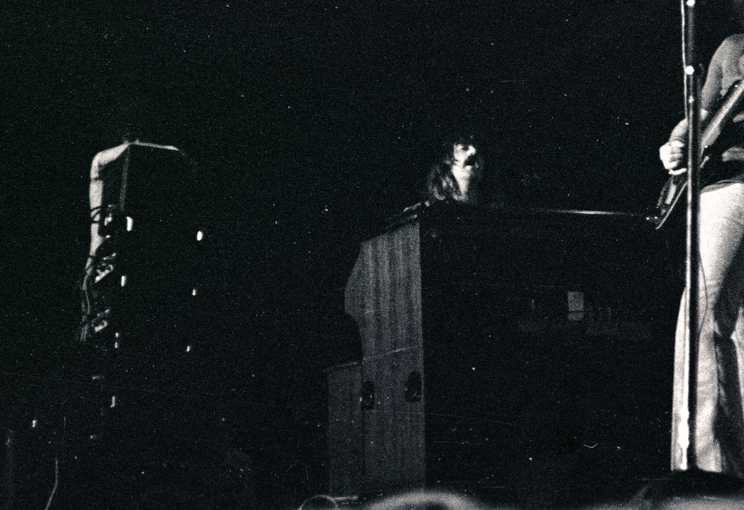 Deep Purple, December 1, 1970 Niedersachsenhalle, Hannover, Germany, The Touring Band 1970: Ian Gillan - Vocals, Ritchie Blackmore - Guitar, Jon Lord - Organ, Roger Glover - Bass Guitar, Ian Paice - Percussion